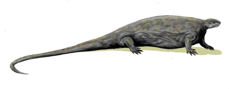 Casea broilii, a pelycosaur from the Late Permian of Europe and North America, pencil drawing